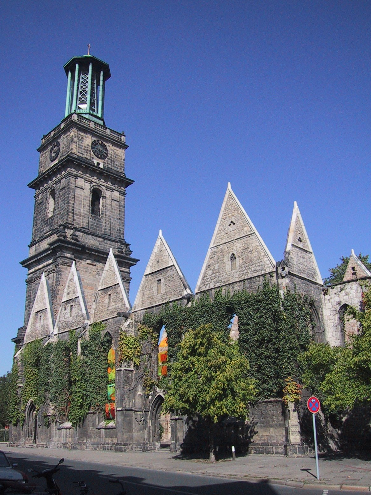 The Aegidienkirche (Aegidien - church) is a landmark in Hannover, Germany. The church was destroyed in World War II, and the ruins have been preserved as a memorial. There are frequently art exhibitions in the ruins of the church.